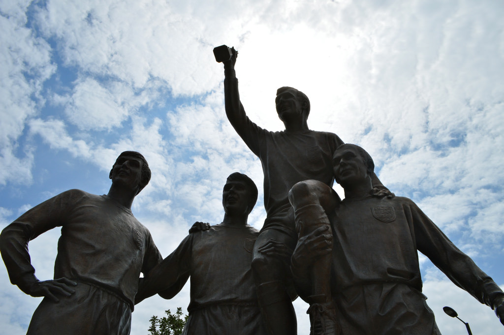 World Cup heros